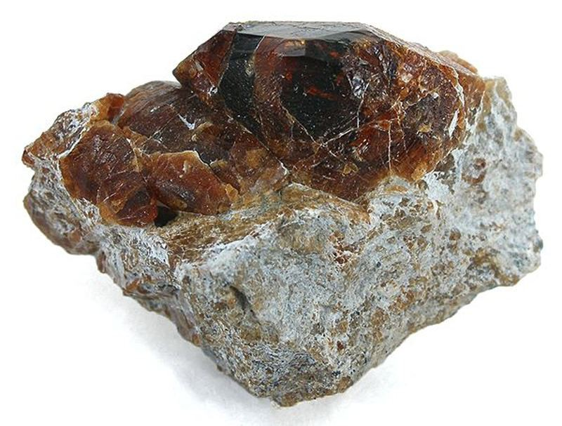 Chondrodite Locality: Tilly Foster mine, Brewster, Putnam County, New York, USA (Locality at ) Size: 5.1 x 3.6 x 2.5 cm. This is a significant, and surprisingly large, crystal of Chondrodite from the old Tilly Foster Mine. This mine is a large iron ore (magnetite) deposit discovered in 1810. The mine was 600 feet deep in 1879. Mining ceased in 1897, after 13 miners were killed in a rockslide. This crystal is 2.7 cm long, and has excellent deep color and lustre for its size. The left termination is complete, though there is some contacting and a small break at the right edge, where it may once have been doubly-terminated. Still, large and significant for the locality. Ex. Dan Ehrling Collection (Milwaukee, WI), acquired in a trade with the University of Chicago in the late 1960s and early 1970s in exchange for his African material.